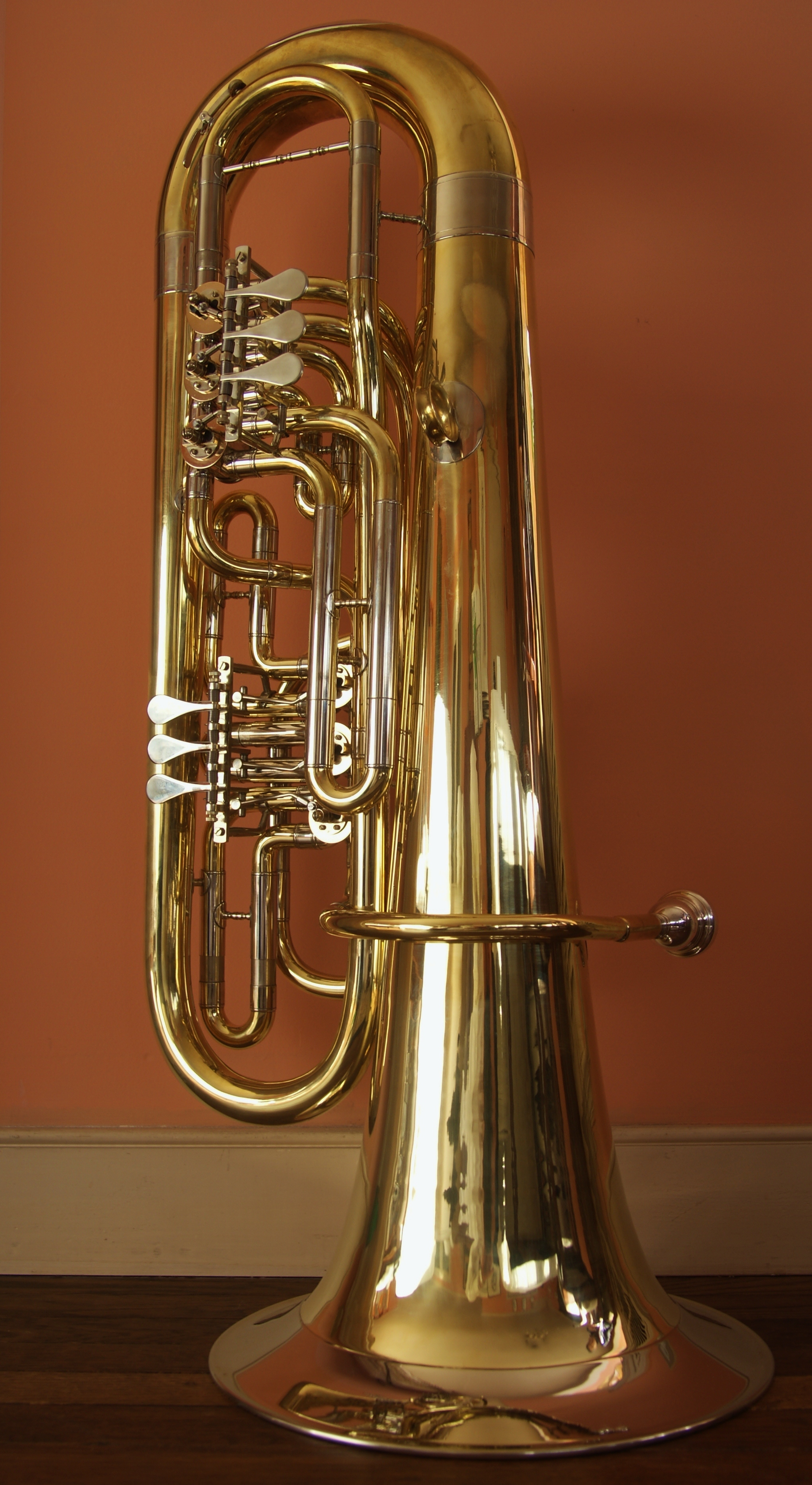 Viennese six-valve bass tuba in F This wiener tuba is handmade by Andreas Jungwirth. This instrument was manufactured in November 2011. With its ingenious fingering and valve system(the sixth valve turns an F tuba into a C tuba),the Viennese concert tuba is － as it were － a combination of bass and contra－bass tuba（with no discrepancy in sound!)．